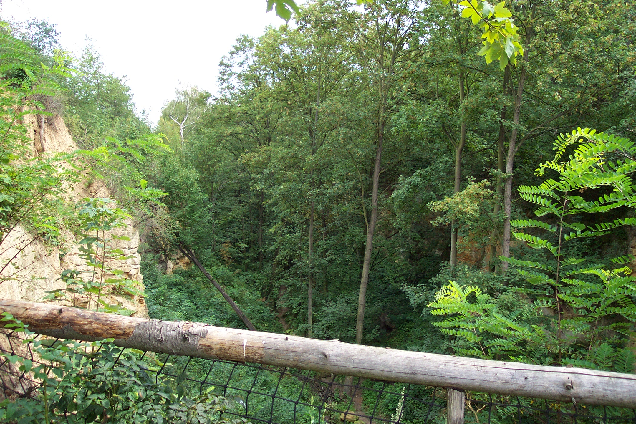 Prague-Lysolaje, the Housle natural reservation